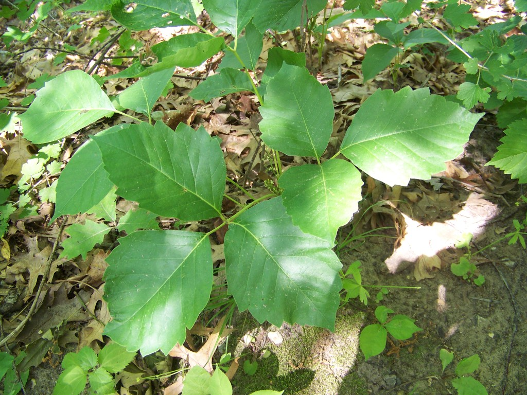 Ground level poison ivy in Perrot State Park, Trempealeau County, Wisconsin